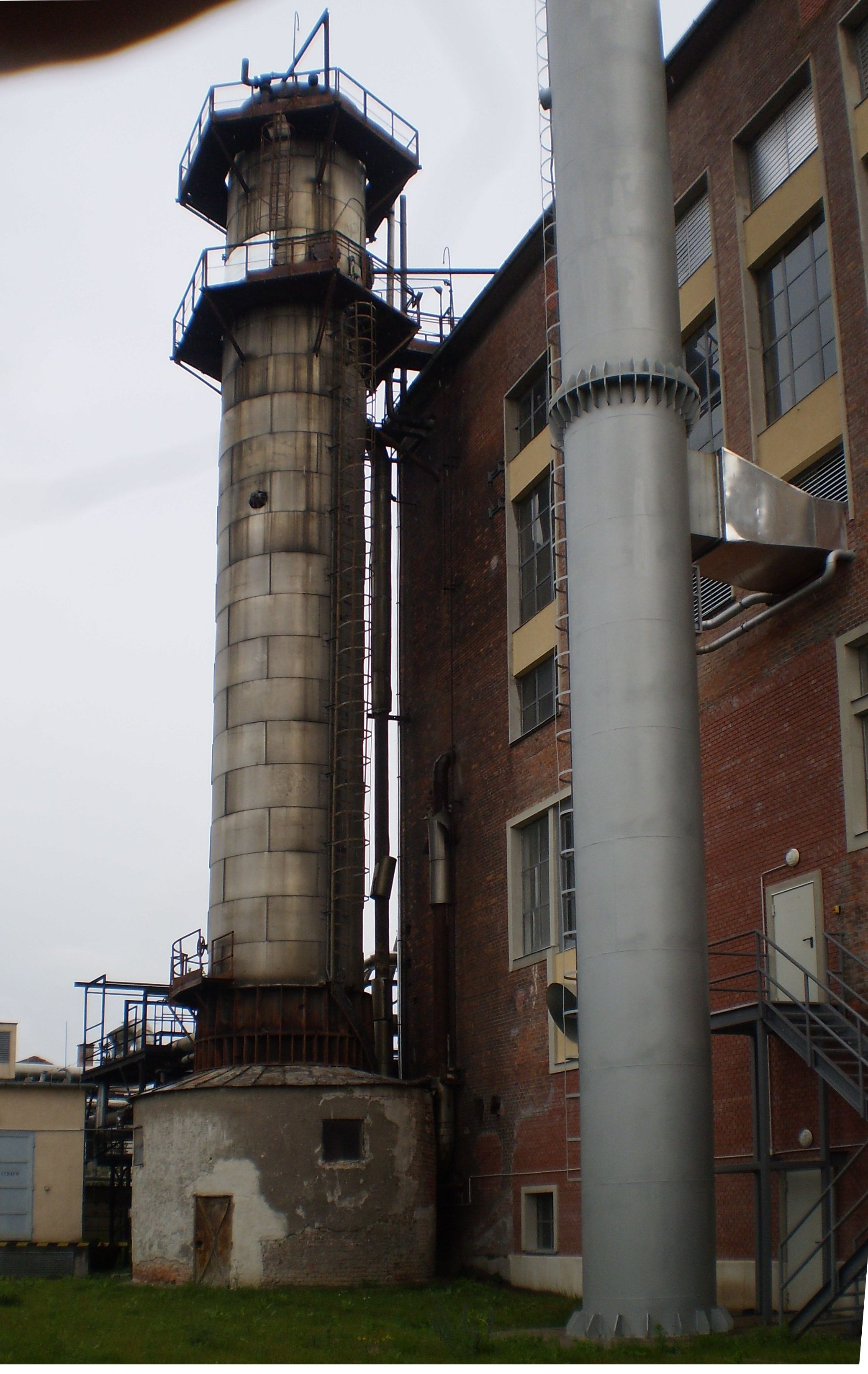 Marguerre heat accumulator in the EDASZ power station, Sopron, Hungary (left)